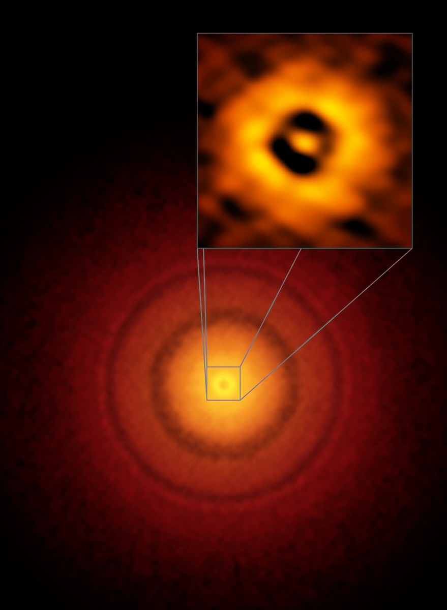 ALMA image of the planet-forming disc around the young, Sun-like star TW Hydrae. The inset image (upper right) zooms in on the gap nearest to the star, which is at the same distance as the Earth is from the Sun, suggesting an infant version of our home planet could be emerging from the dust and gas. The additional concentric light and dark features represent other planet-forming regions farther out in the disc.